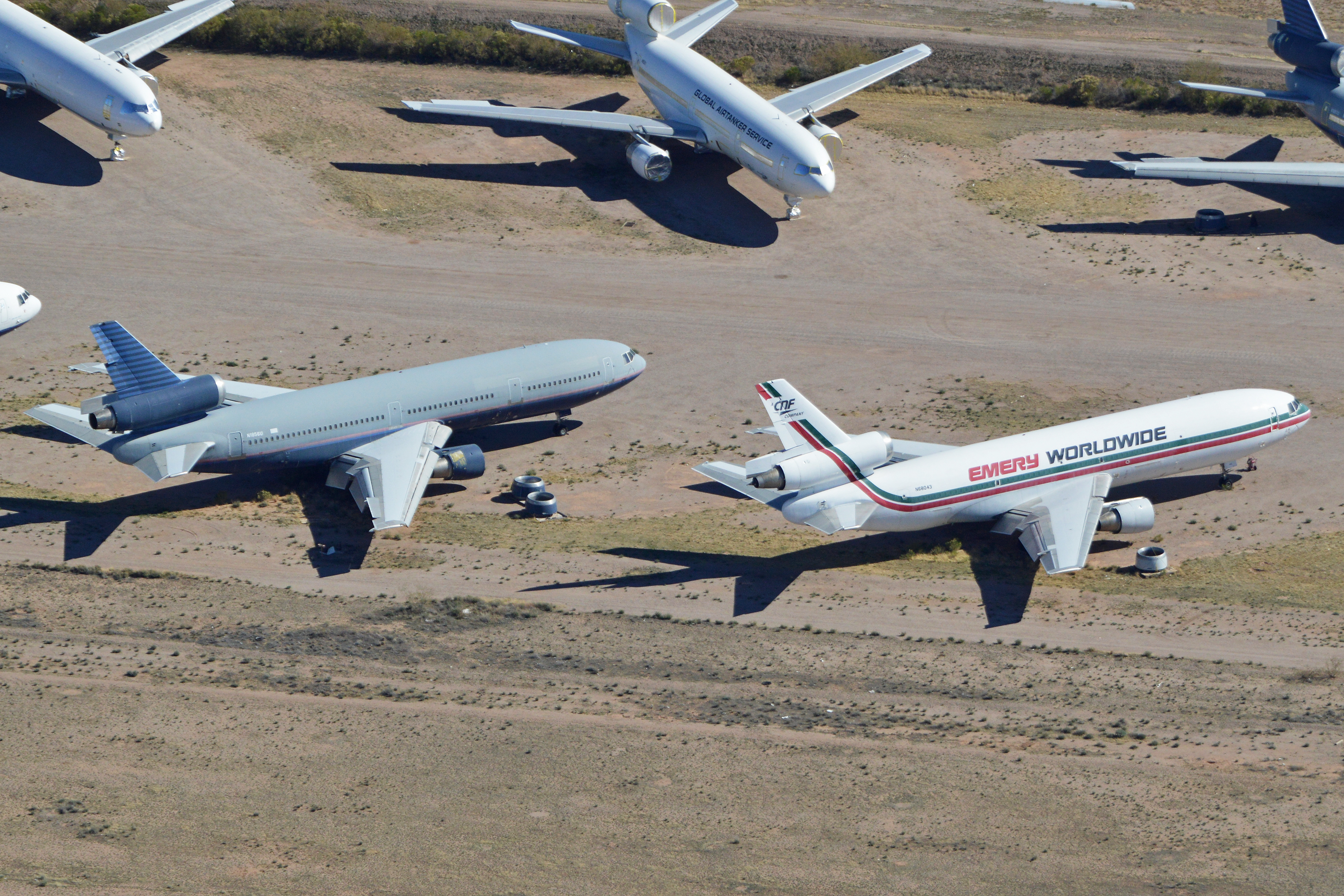 Two more DC10s stored at Pinal. On the left is 'N1856U', a DC10-30CF. Built in 1977 for World Airways as N103WA, it moved to United in 1986 and remained with them until retirement. c/n 46975, l/n 248. To the right is 'N68043', a DC10-10(F). It was built in 1972 for Continental, moving to Emery Worldwide in 2000. c/n 46902, l/n 41. Pinal Air Park, Marana. Arizona, USA. 09-2-2014